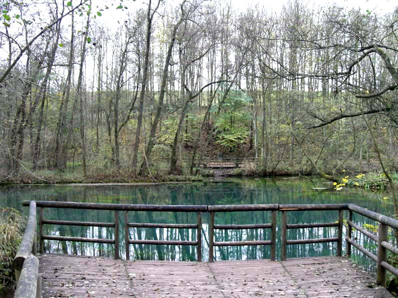 Rhumequelle am Harz (Deutschland) 6.11.2005. Source of river Rhume in Germany november 2005. made by M. Redecke